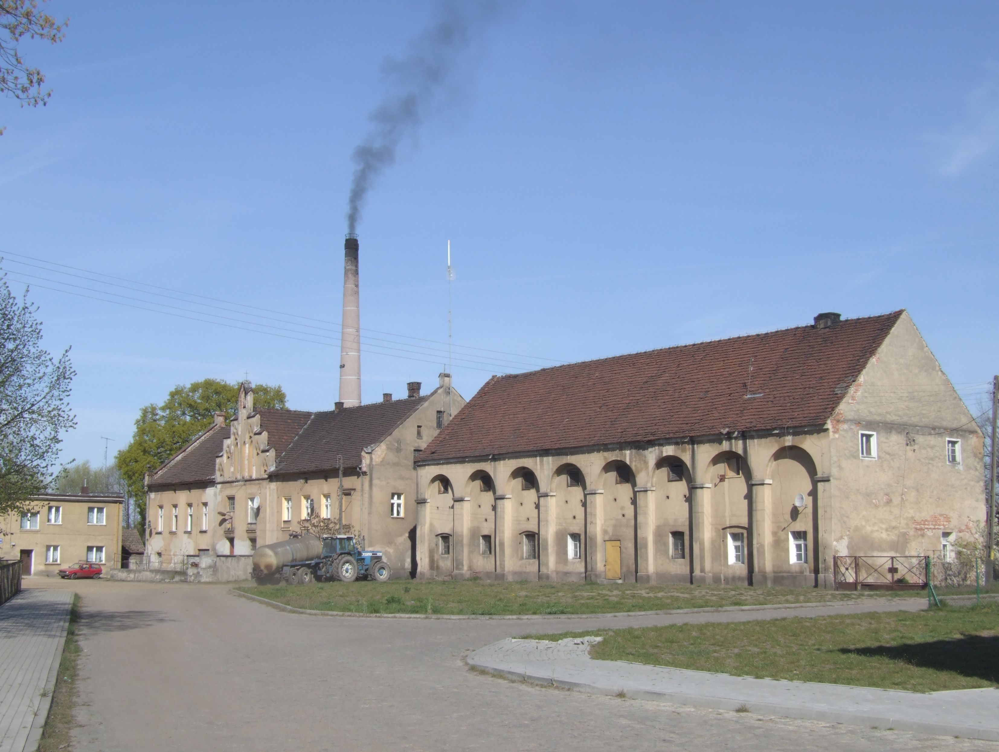 Wojnowo near Sulechów, Poland. Distillery plant